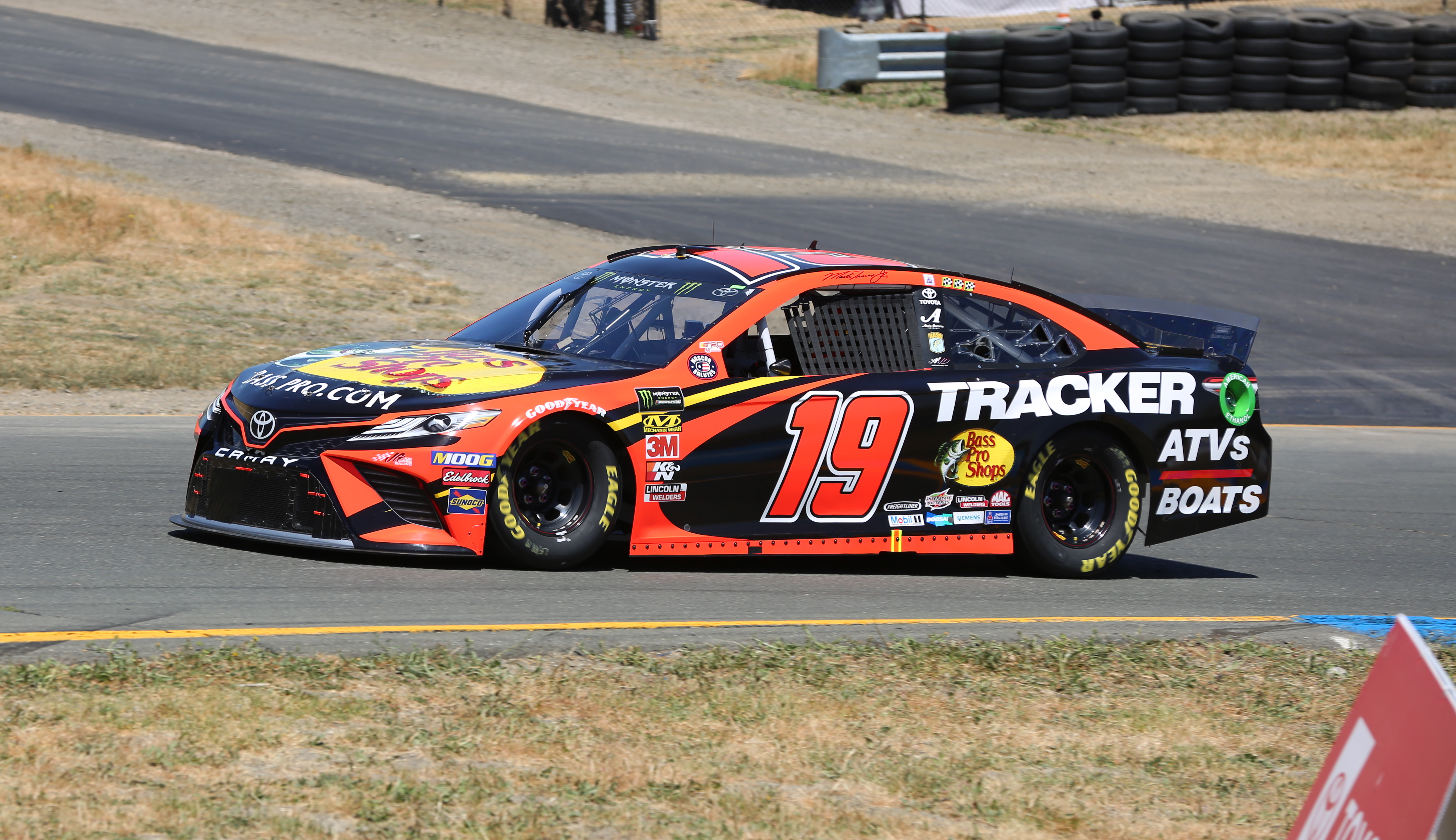 Martin Truex Jr.'s race-winning car during the 2019 Toyota/Save Mart 350 at Sonoma Raceway.